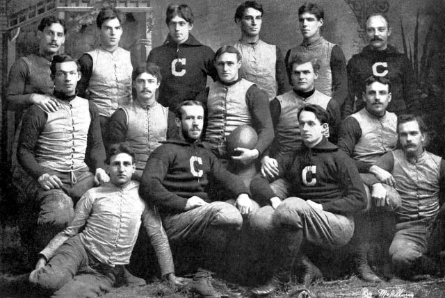 1892 Cornell varsity football team - (back l to r) Brussel, P. A. Robbins, Brown, C. J. Barr, E. Young, B. Hanson (middle l to r) G. F. Wagner, G. P. Witherbee, C. M. Johanson, G. S. Warner, A. E. Griffith (front l to r) G. S. Curtis, W. D. Osgood, R. H. White, Harvey